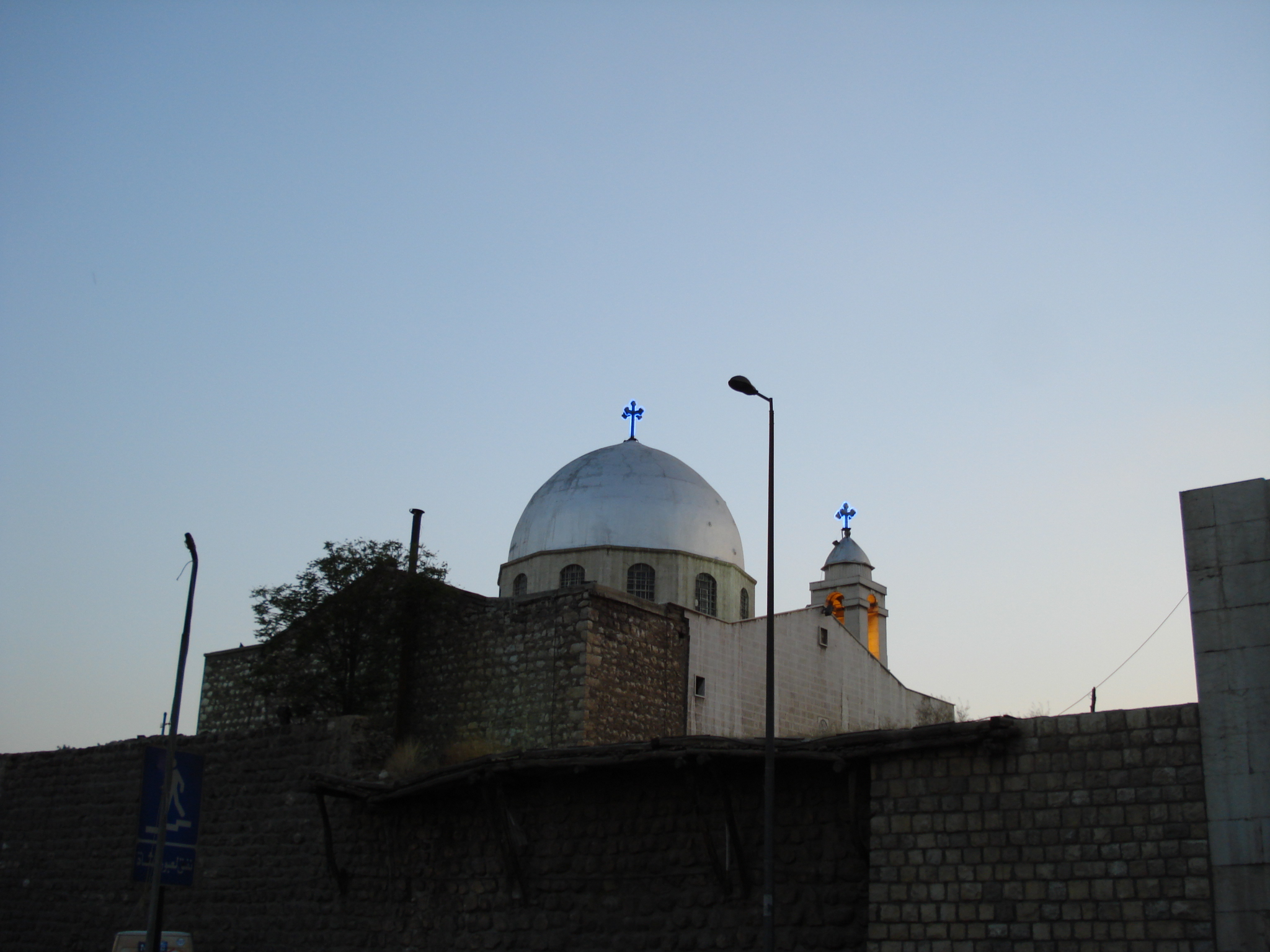 Armenian Orthodox Church in Bab Sharqi, Damascus